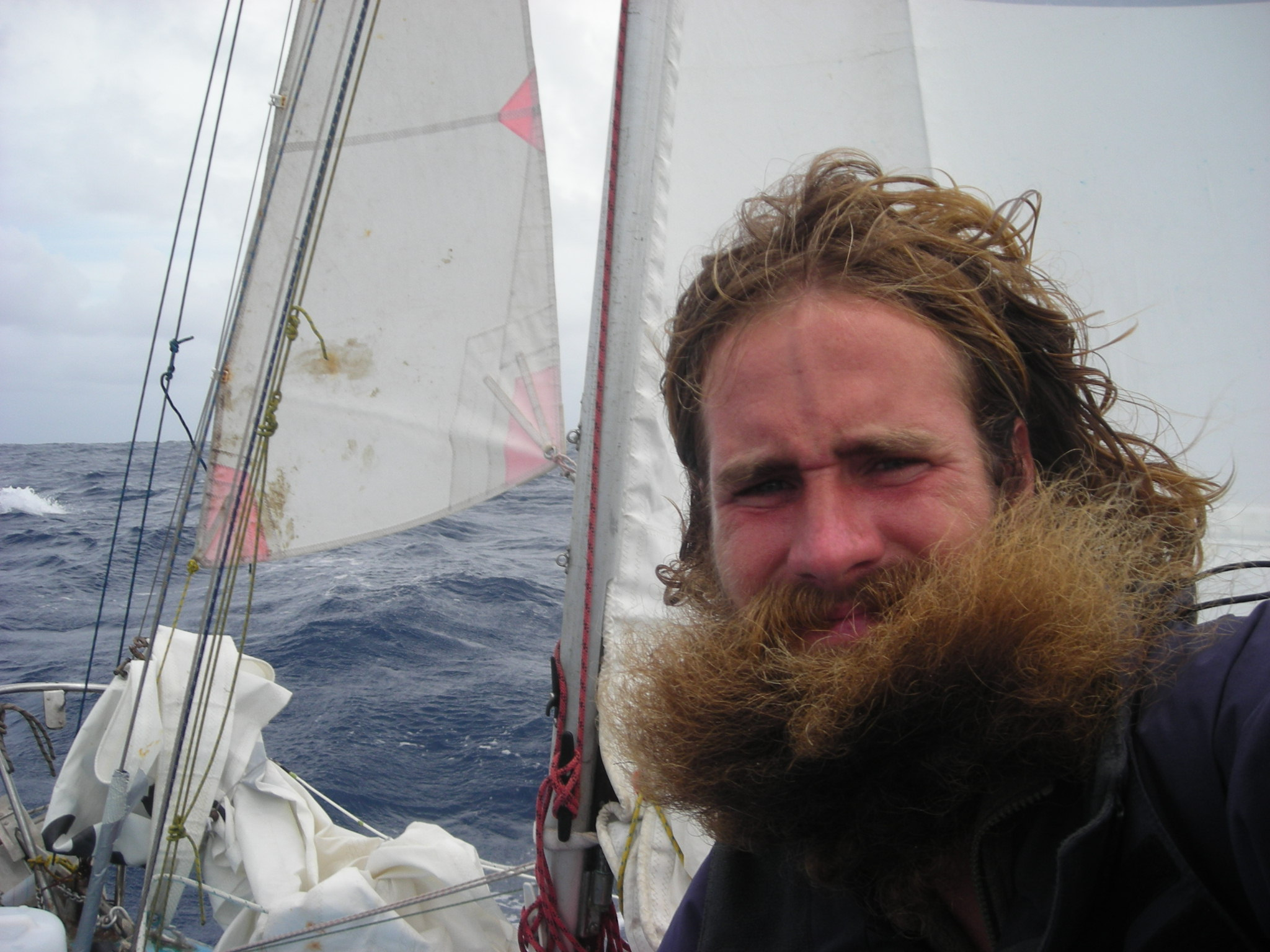 Méder Áron in Tonga.